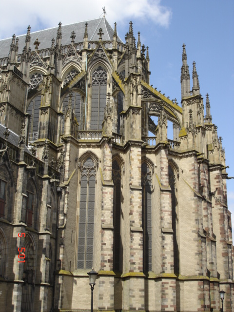 Utrecht Cathedral seen from the South-East